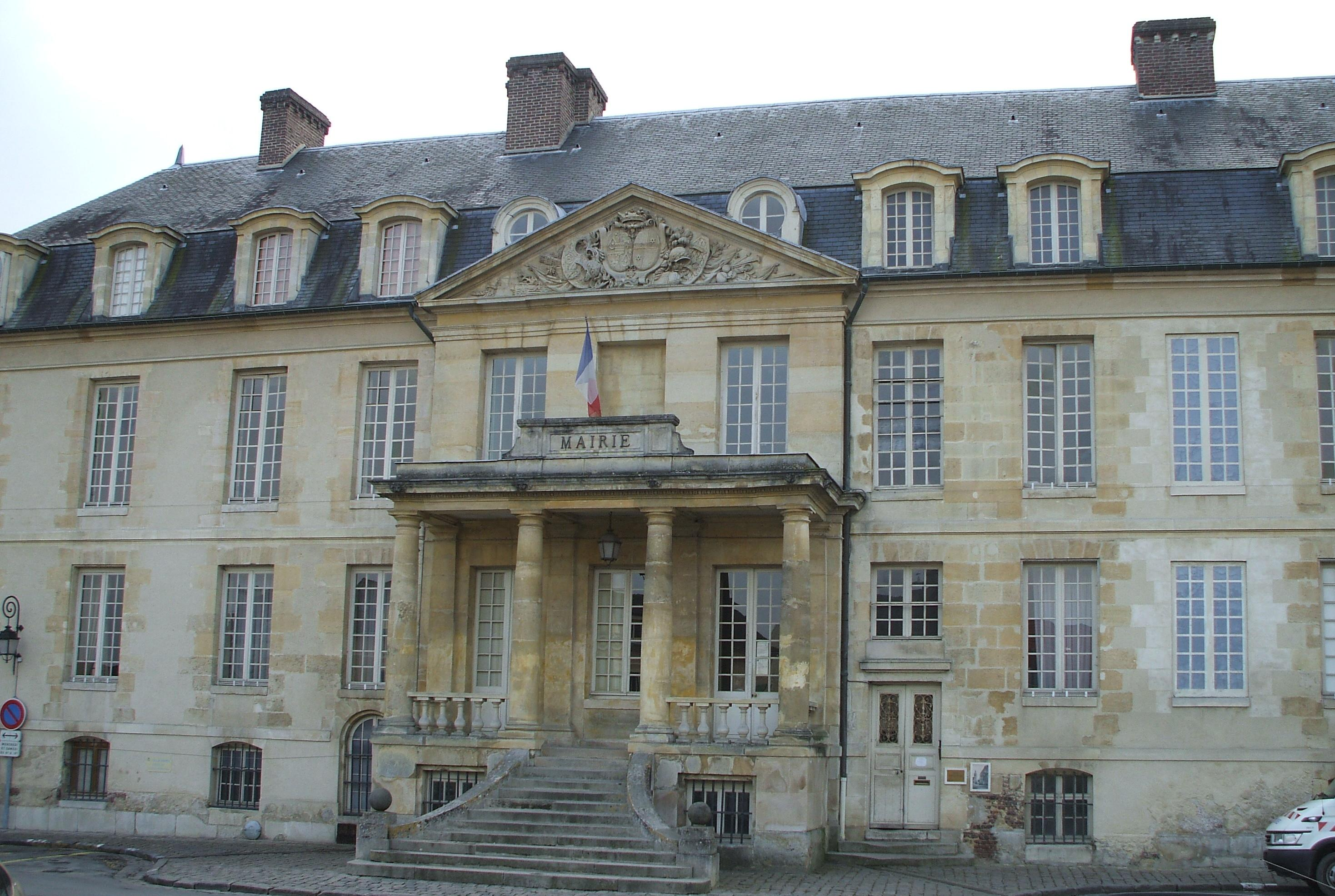 City hall of viarmes